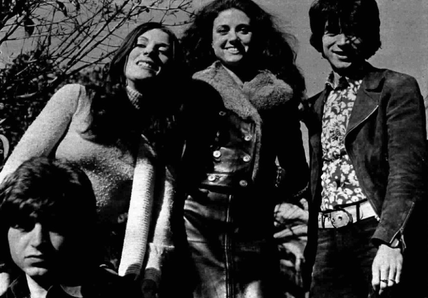 Italian singers Sergio Menegale, Caterina Caselli, Gigliola Cinquetti and Don Backy in Sanremo for the 1971 Sanremo Music Festival